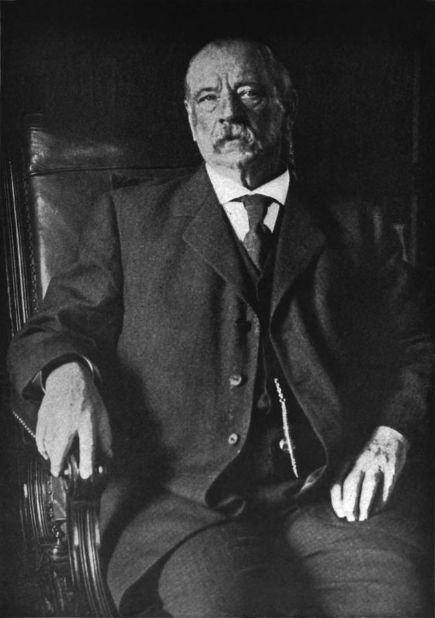 One of the latest stereographs of ex-President Grover Cleveland, who would be attending the Conference for the Conservation of Natural Resources at the White House.